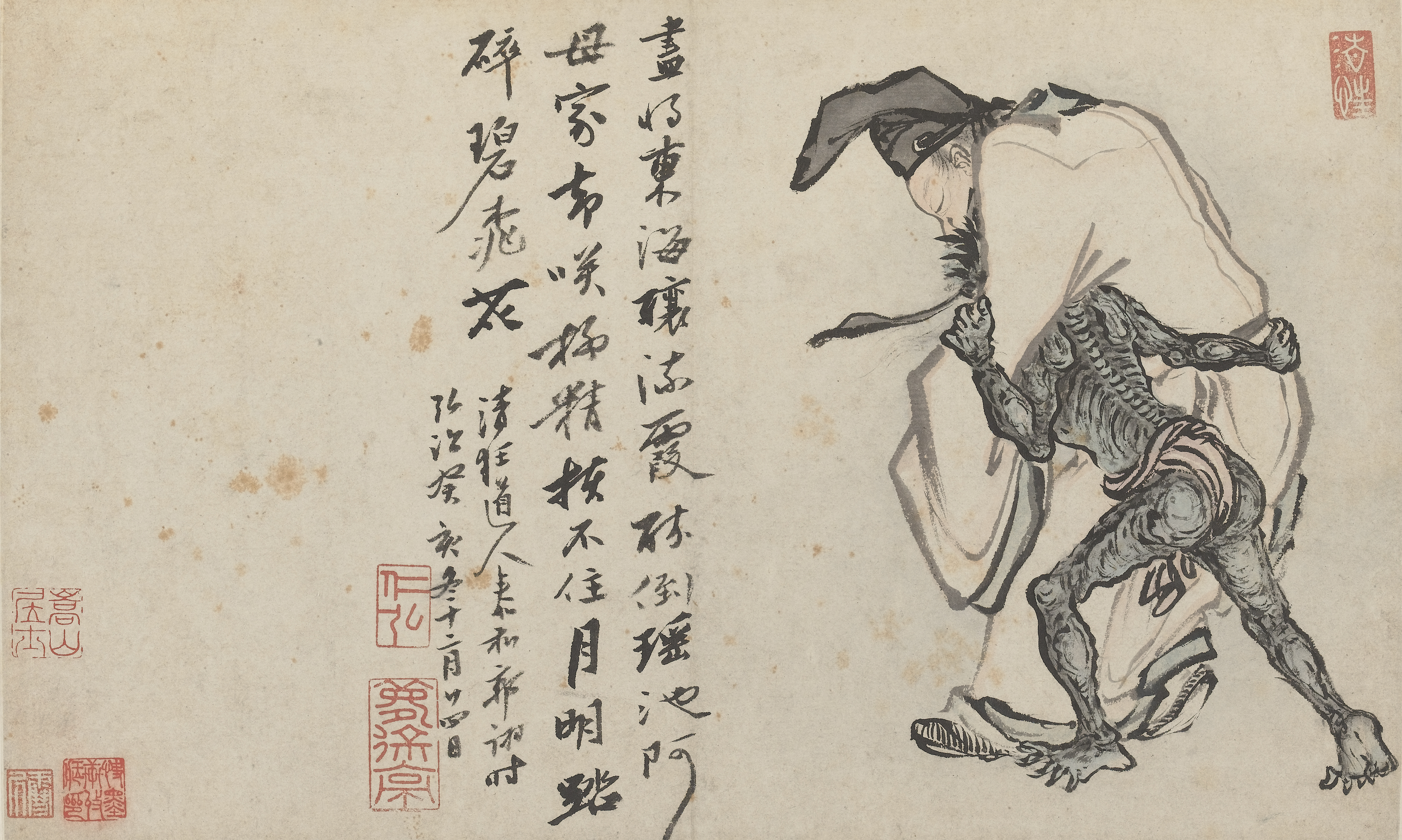 "A drunken immortal in a white robe staggers home, supported by a ghoulish, bony figure in a loincloth. The immortal is not identified by name, but we can easily imagine he might someone from folklore or Daoist religious lore like Zhong Kui, the legendary demon-slayer. Zhong Kui was lord of the demons of hell, but they often tried to steal his magical sword and boots, by getting him drunk. In such stories, his demon helpers always ensured he got home safely."— Chester Beatty Library